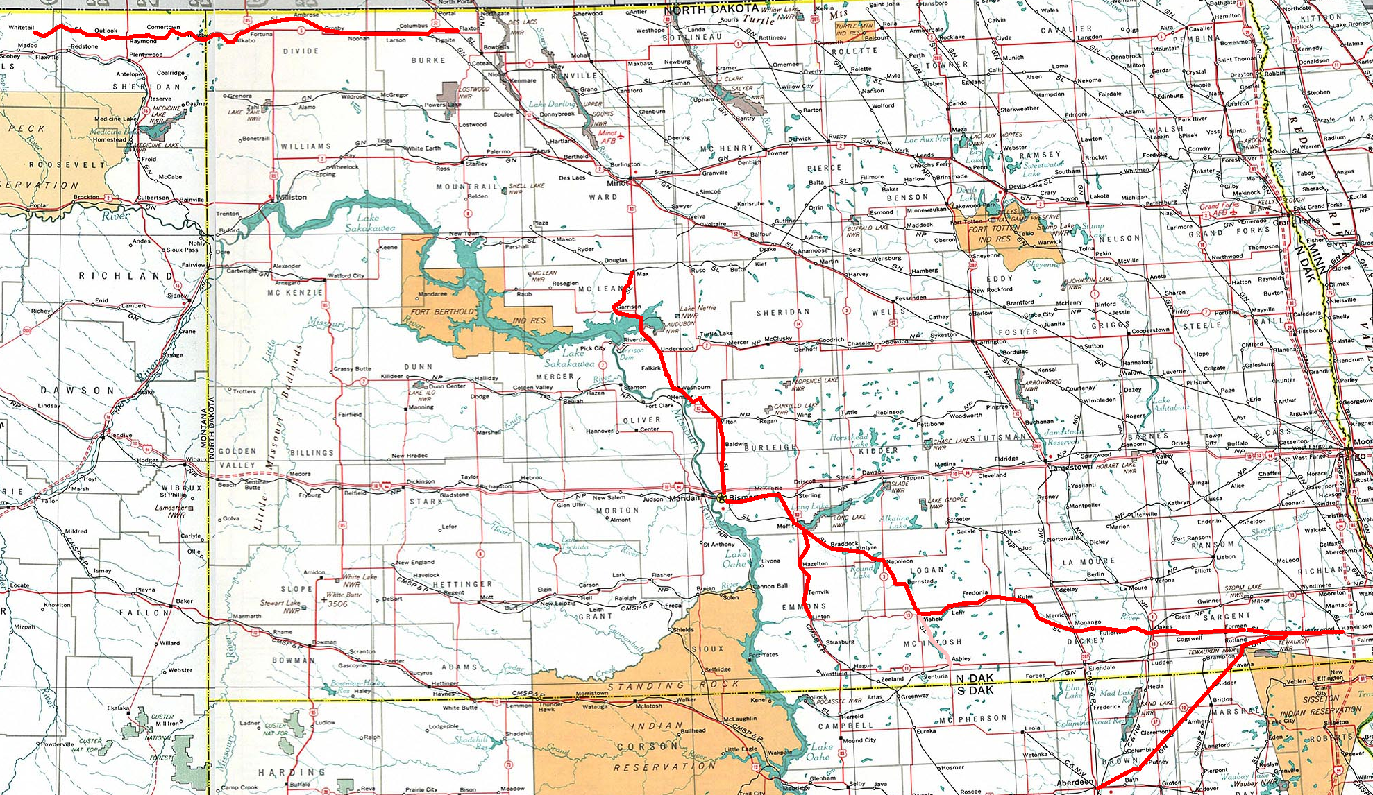 Map of the Dakota, Missouri Valley and Western RR.